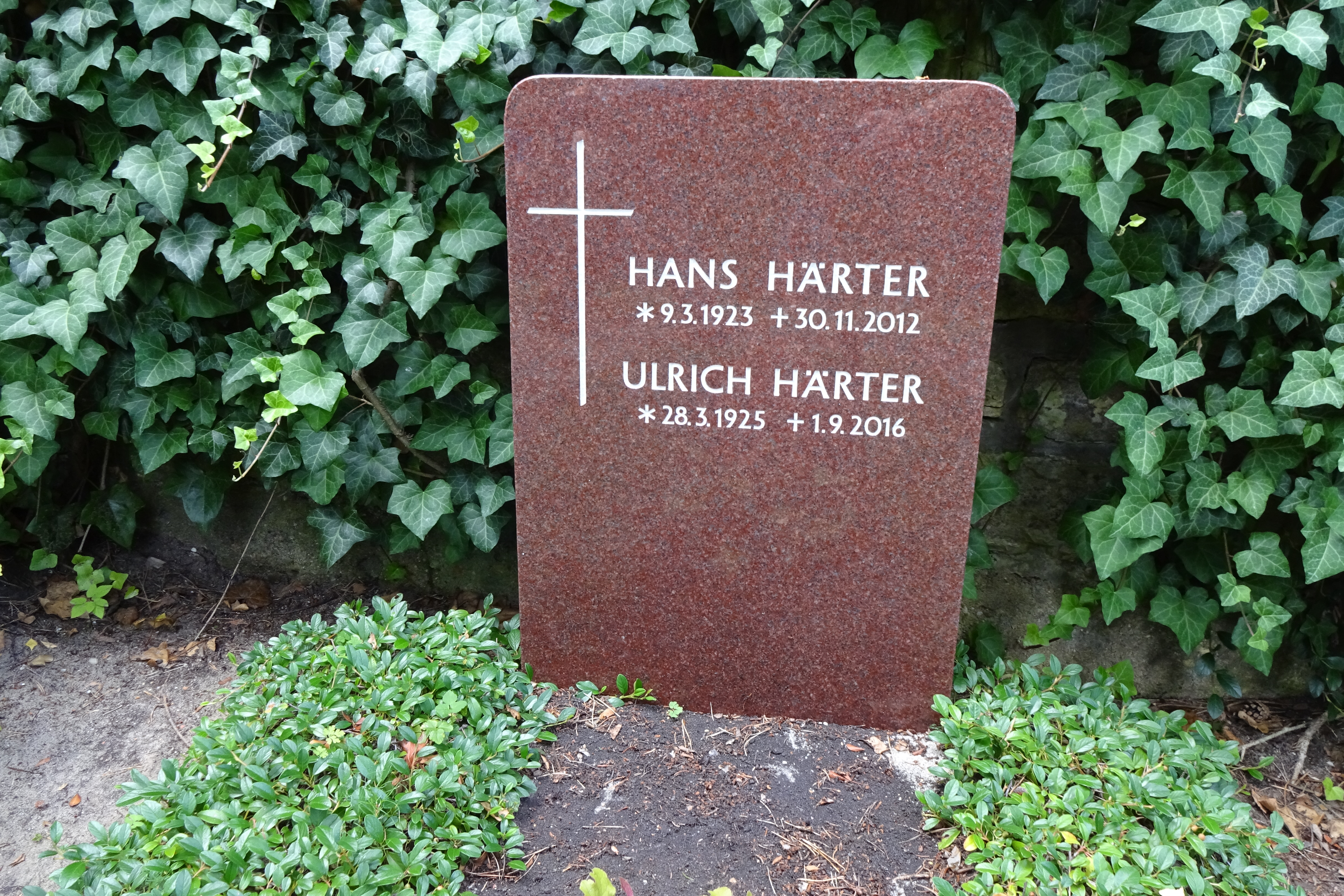 Grave of German painter Ulrich Härter in Friedhof Heerstraße in Berlin-Westend